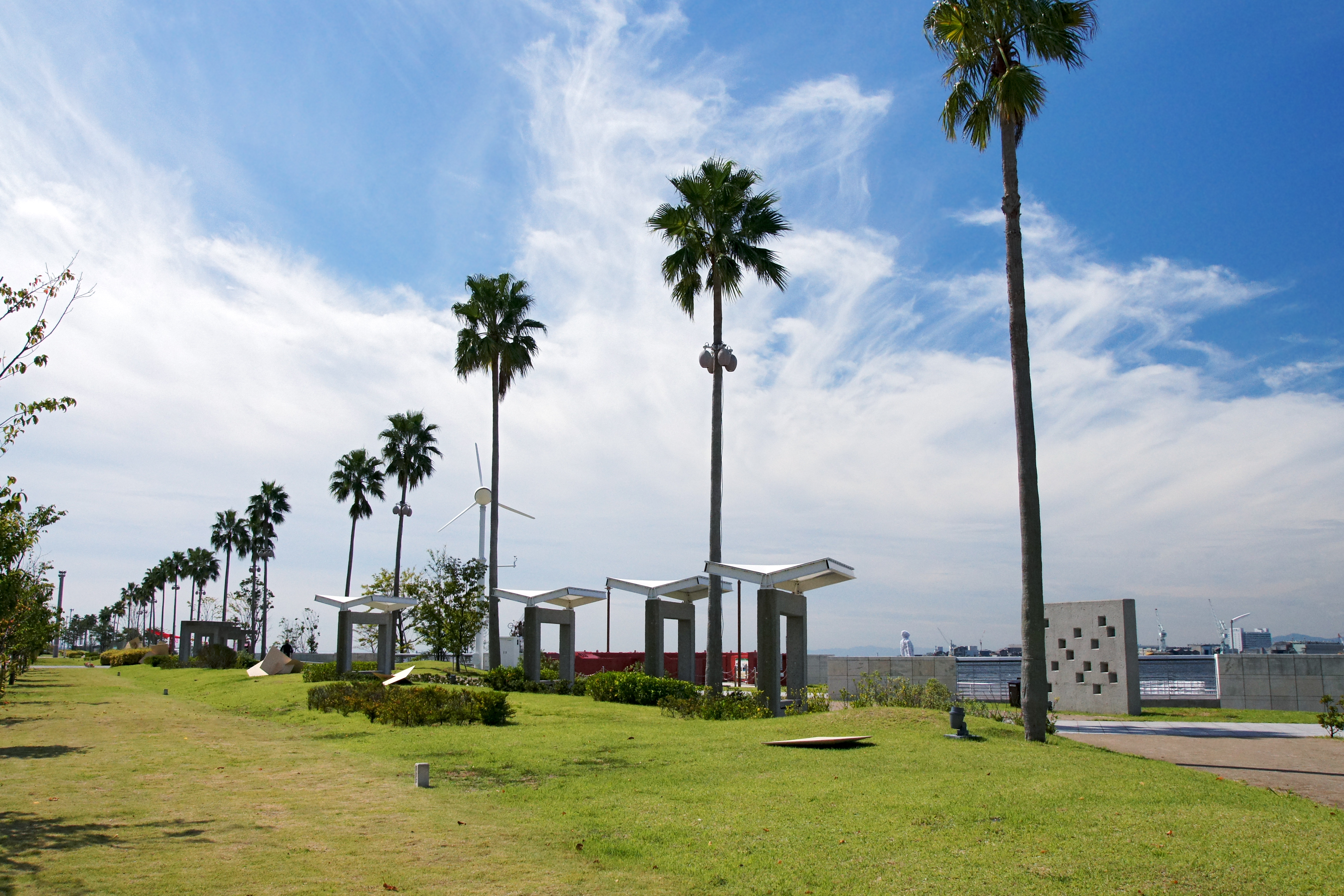 Po-ai Shiosai Park in Kobe, Hyogo prefecture, Japan